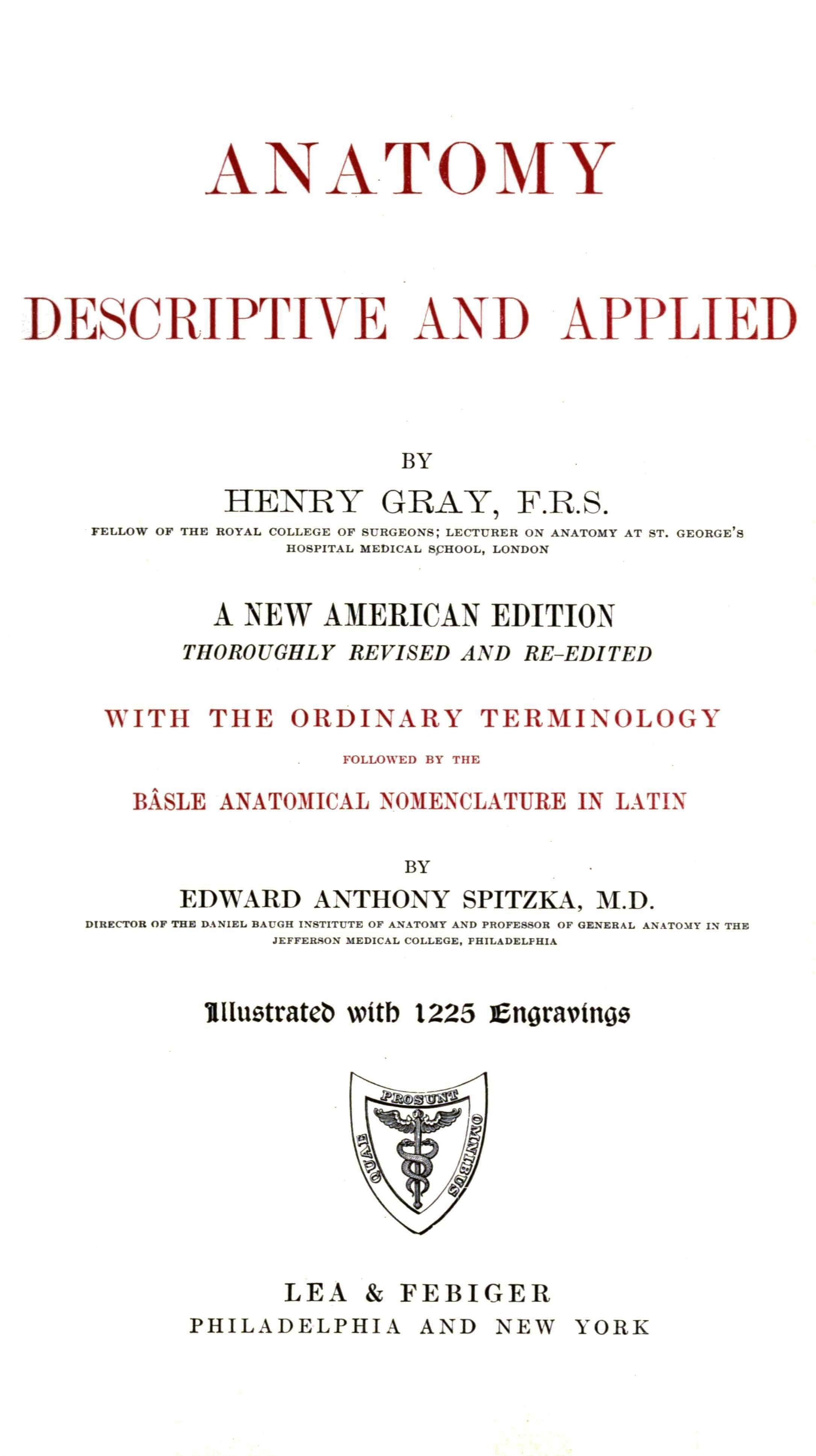 Title page of 19th edition of Gray's Anatomy